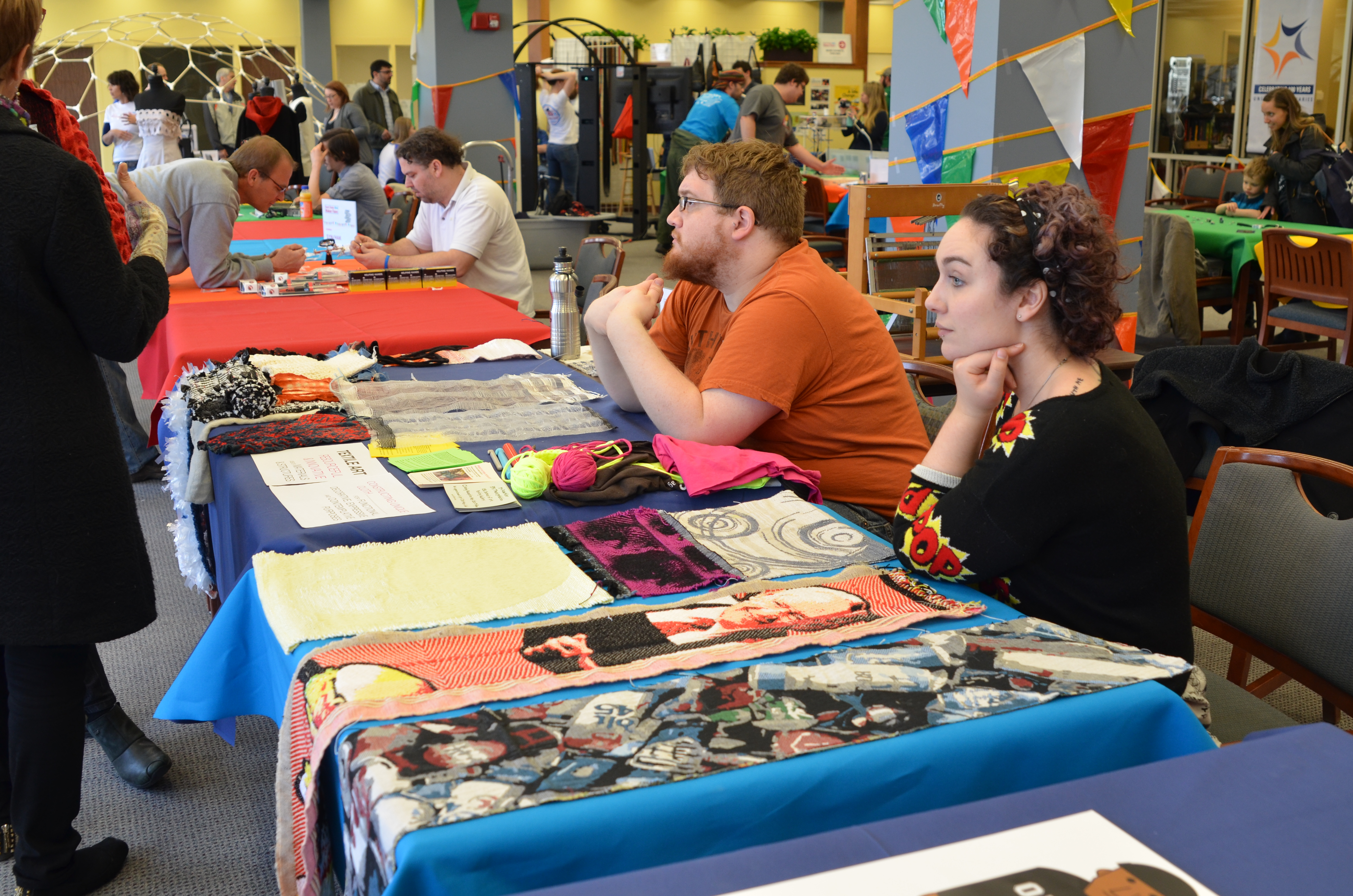 April 26, 2014 - Kent State University Library